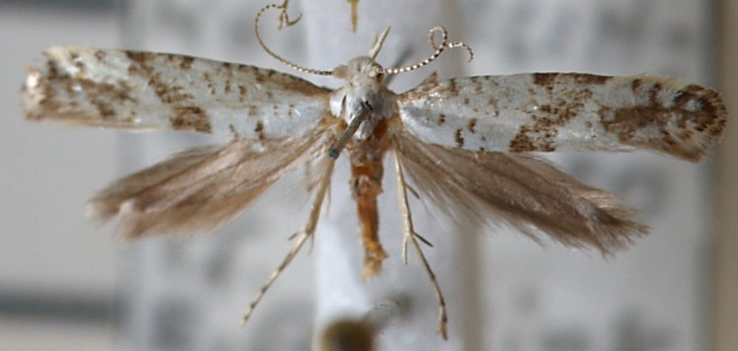 Argyresthia curvella, here misidentified as Argyresthia cornella (due to confusion with Scythropia crataegella, formerly Tinea cornella)